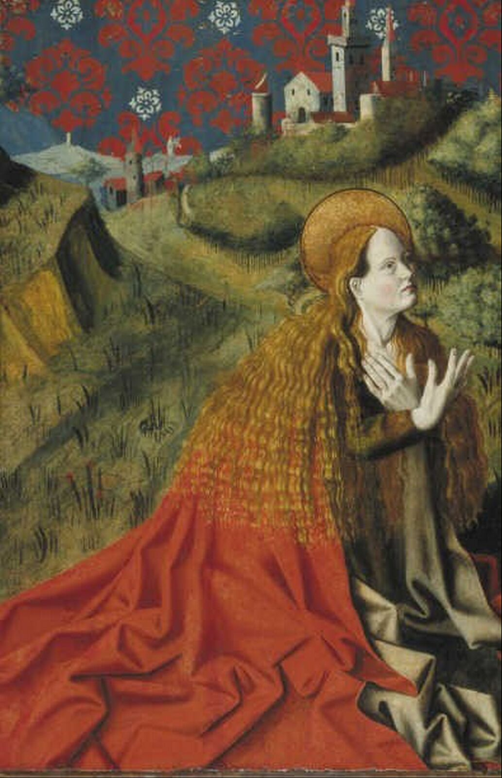 Fragment of the left wing of an altarpiece from the cathedral in Aix-en-Provence, the top part of which is now in the Rijksmuseum Amsterdam. On the front the Prophet Isaiah (see File:WLANL - jpa2003 - De profeet jesaja (d'Eijck).jpg).